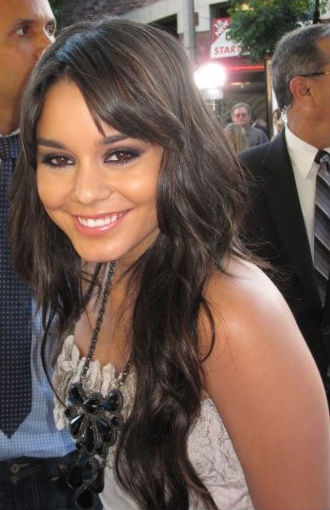 Vanessa Hudgens during Bandslam premiere